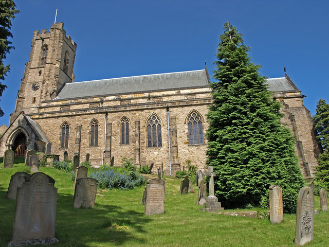 Parish Church of St. Mary the Virgin, Richmond A church has stood here since the 1100s. Adjacent to the A6136, Station Road, Richmond.